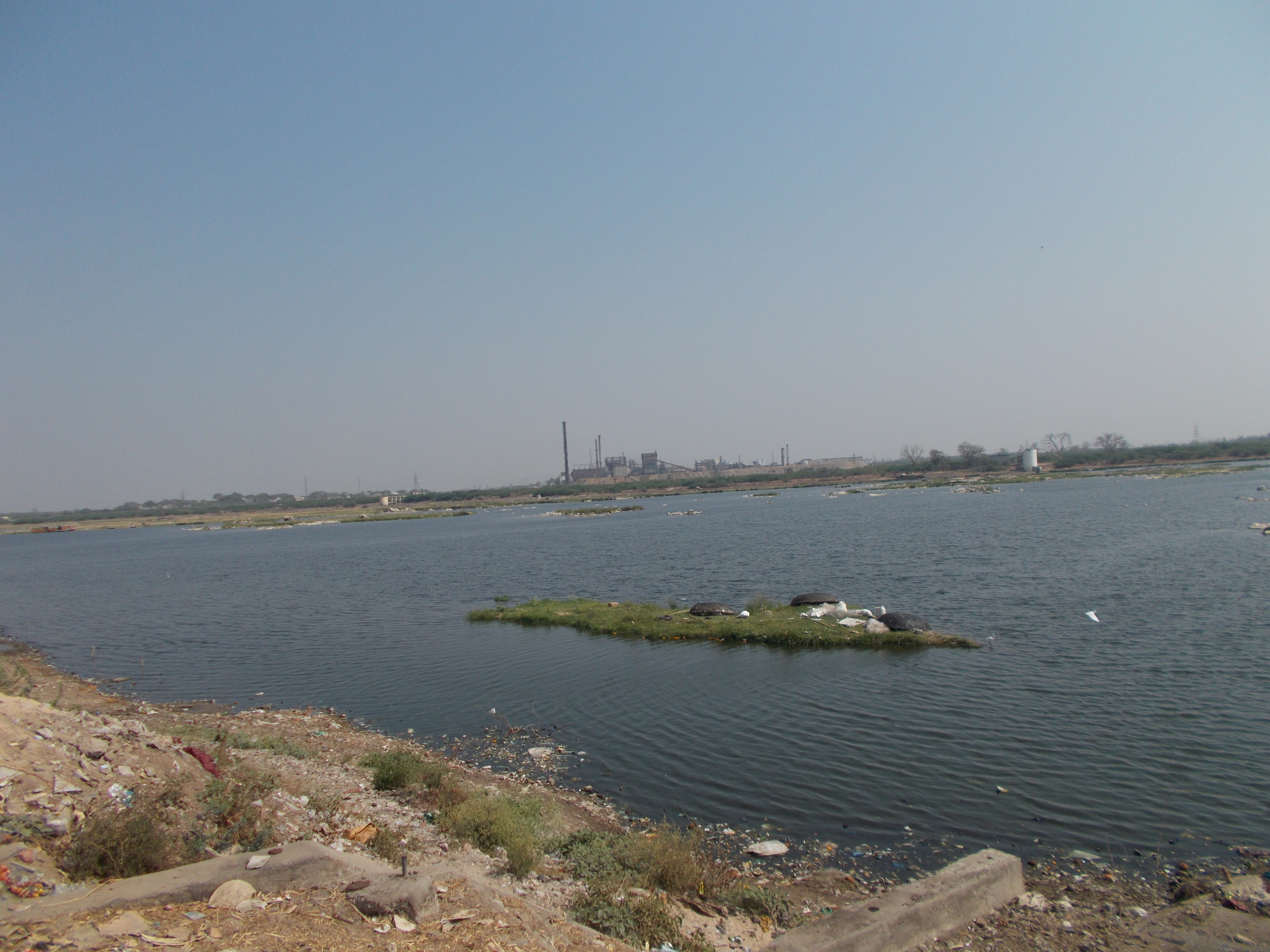 Tungabhadra River from Kurnool City